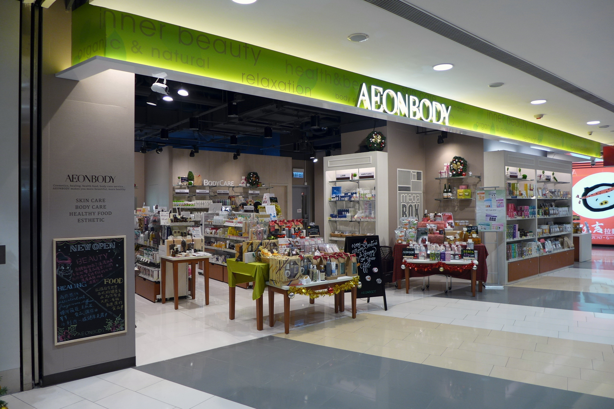 AEONBODY in MegaBox